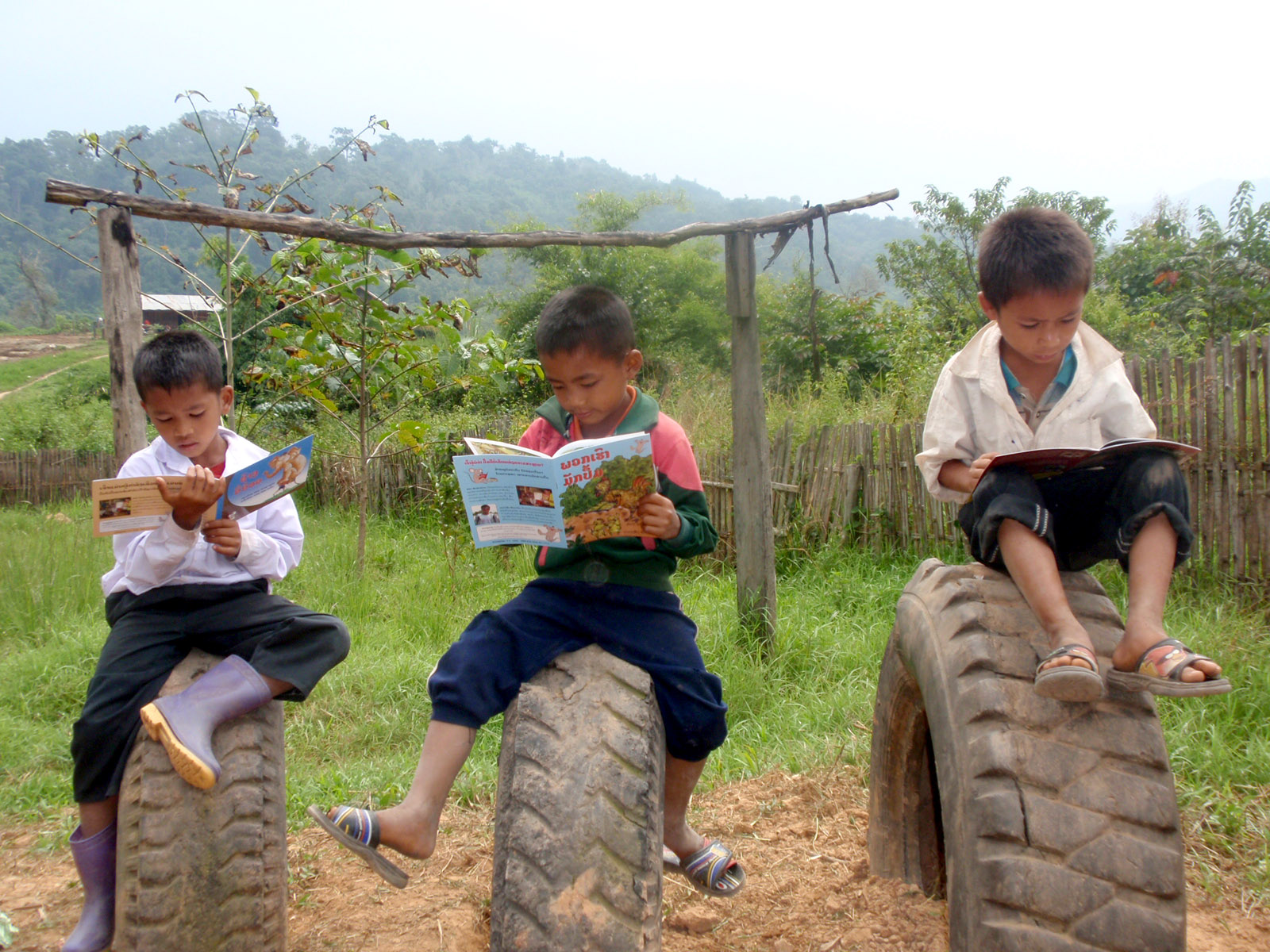 Traditional Lao homes don't have chairs; people sit or squat on the floor. These boys made do with some playground equipment, when they were ready to enjoy books they received from Big Brother Mouse, a literacy program in Laos.